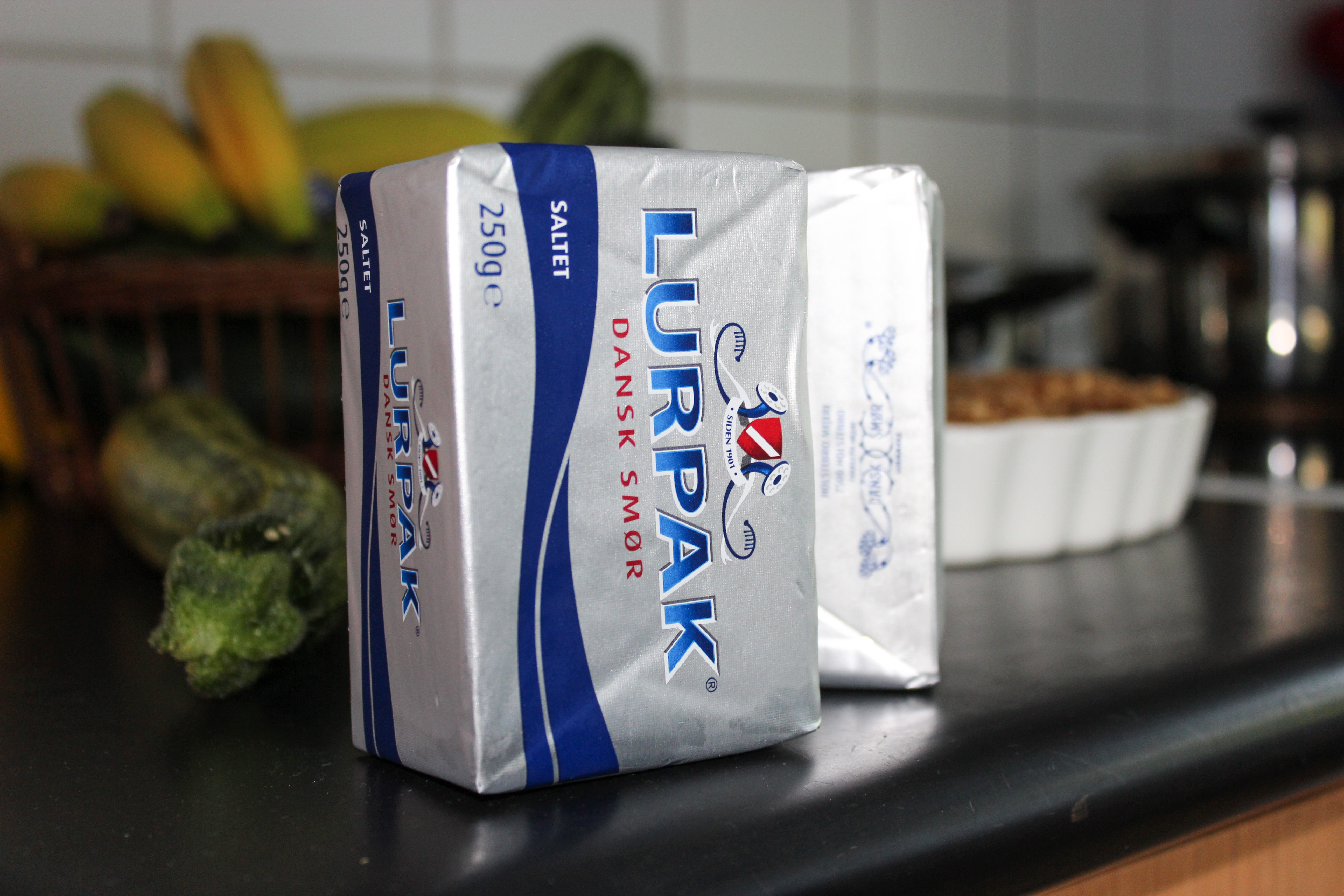 A package of the Danish Lurpak butter